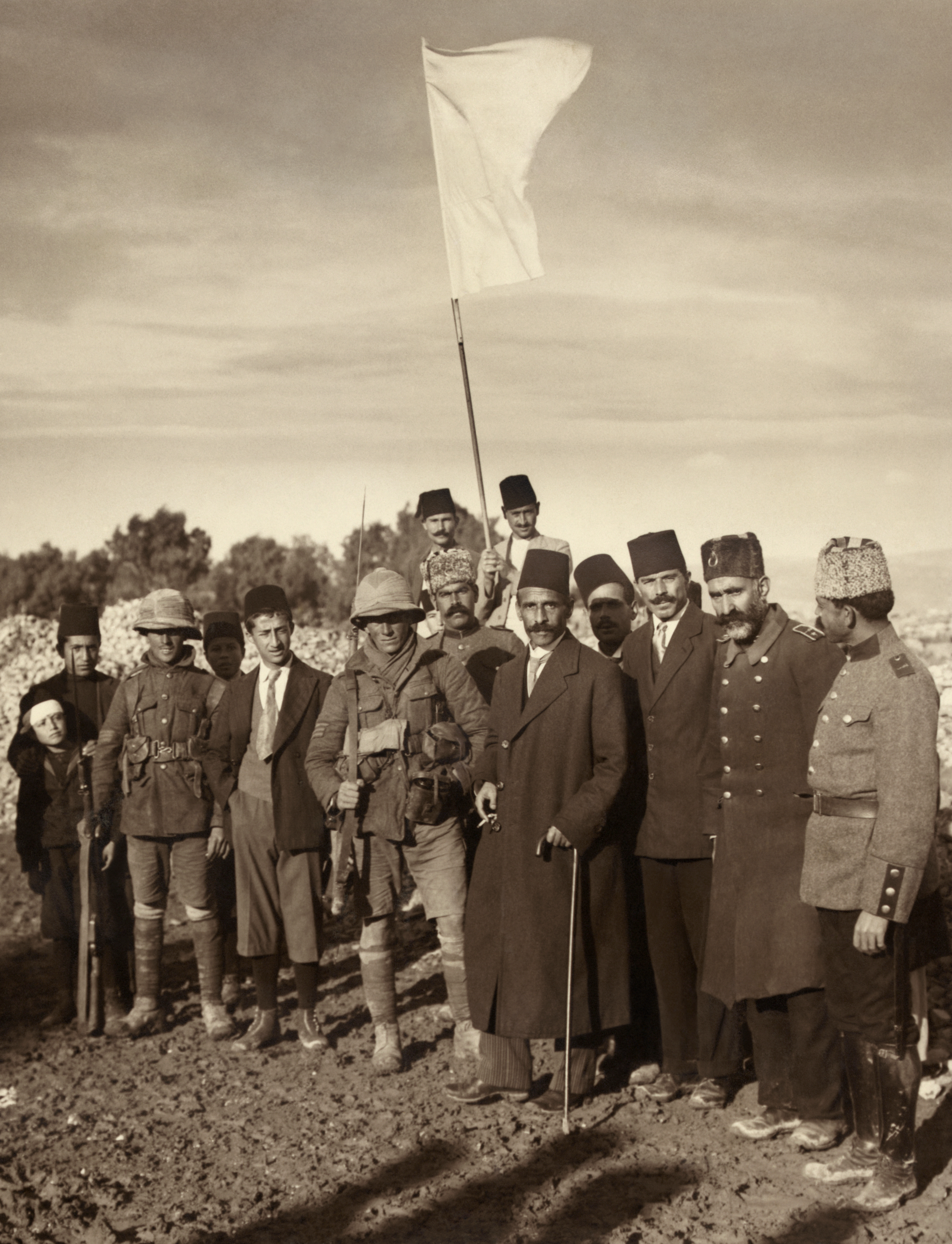 The Mayor of Jerusalem, Hussein Salim Al-Husseini (with walking stick and cigarette), with his party under a white flag-of-truce, attempts to deliver the surrender document signed by the Ottoman Governor Izzat Pasha just outside Jerusalem’s western limits on the morning of 9 December 1917 to Sergeants James Sedgewick and Frederick Hurcomb of 2/19th Battalion of the London Regiment (fourth and seventh from left in the picture). The surprised sergeants, who were scouting ahead of General Sir Edmund Allenby's main force, refused to take the letter, as did several more arriving troops. The Mayor was accompanied by a number of officials including his nephew Toufiq Saleh Al-Husseini, police inspectors Abdelqadir Al-Alami and Ahmad Sharaf (Second from right in the picture), policemen Hussein Al-Assaly and Ibrahim Al-Zaanoun, as well as a group of young men among whom were Rushdi Mohamed Al-Muhtada, Jawad Ismail Al-Husseini, and Hanna Iskandar Al-Lahham, who carried the white flag. The Mayor was also accompanied by a young photographer named Lewis Larsson, who later became Swedish Consul in Palestine, and whose role was to record the ceremony. It began to look to the Jerusalemites as if nobody would let them surrender, until Brigadier-General C.F. Watson, commanding 180th Infantry Brigade entered the town, accepted the documents, and Larsson could photograph the event properly.